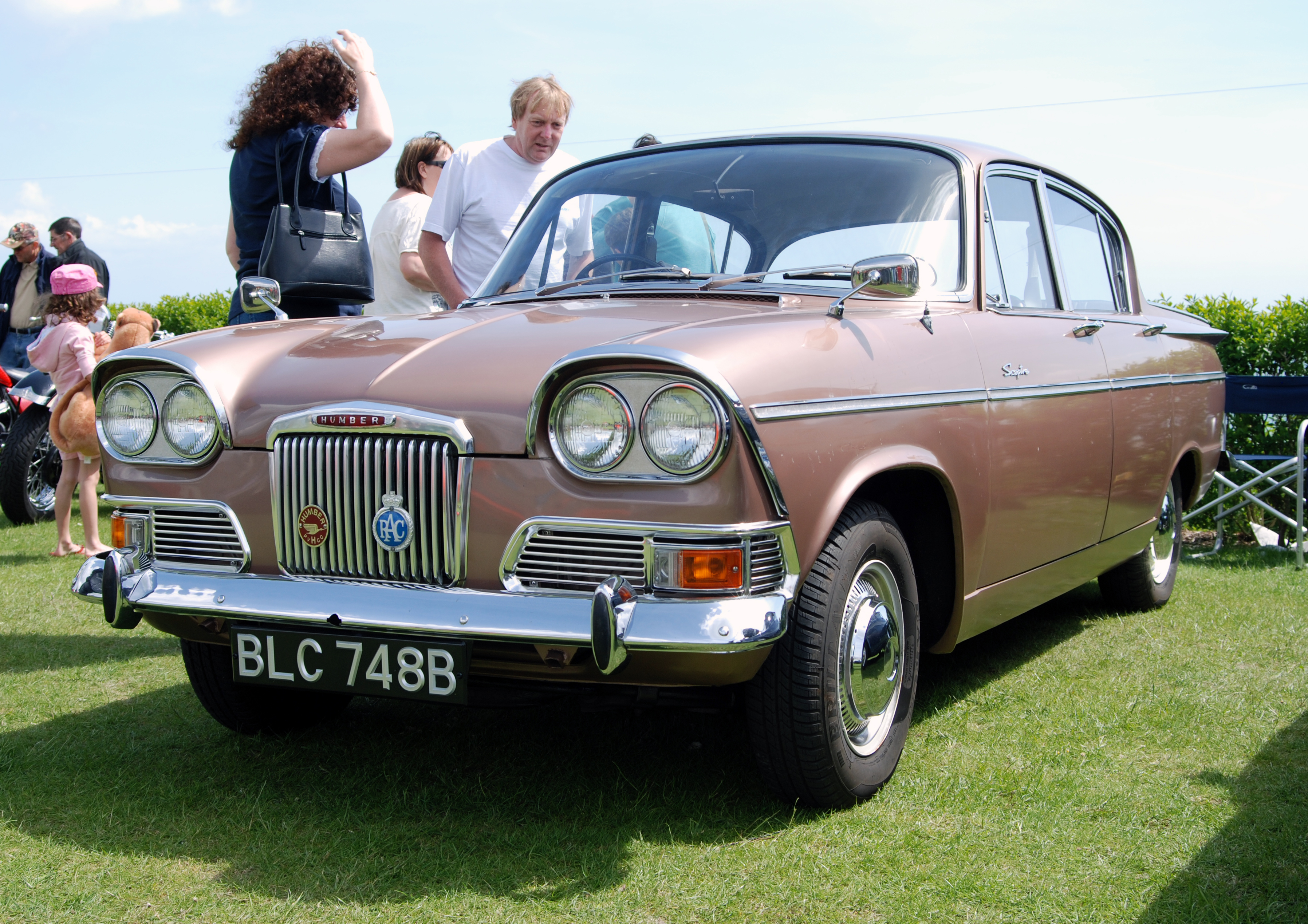 Magnificent Motors,Eastbourne,May 2009